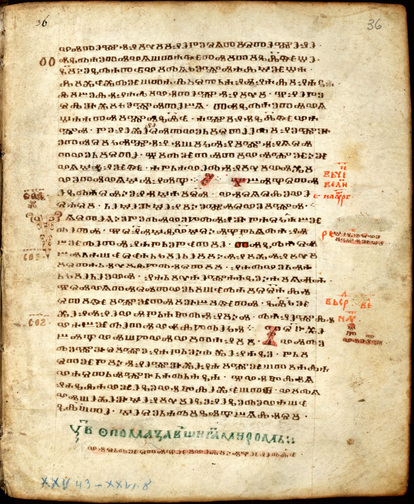 Codex Marianus - the canon monument of Old Church Slavonic, written in Glagolitic alphabet